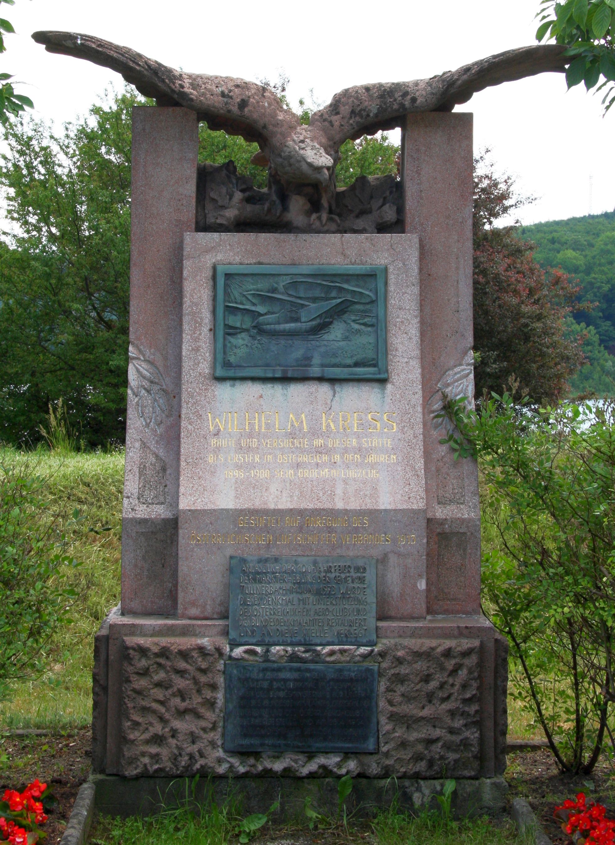 The monument of Wilhelm Kress near the Wienerwaldsee (Vienna Forest Lake)